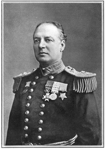 Portrait of Lord Beresford, from in his own book, The Break-Up of China, Published New York & London 1899